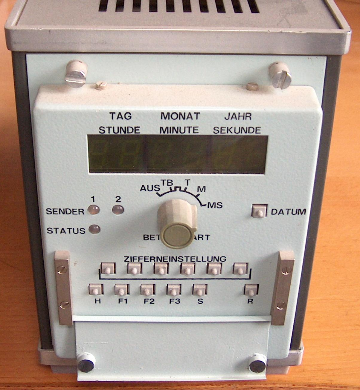 radio-controlled clock from former GDR intelligence service "Stasi" to record and play back time stamps on audio records